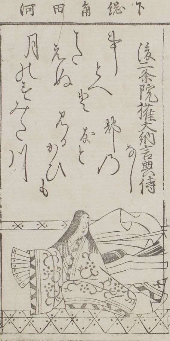 A portrait and a waka poem of Nijō Ishi (or Nijō Tameko), aka Go-Nijōin Gon-Dainagon Tenji, one of the greatest waka poets of the Nijō school (around 1300) and the first main consort of then-Crown Prince Takaharu (the later Emperor Go-Daigo). From Meisho Waka Hyakunin Isshu (1686).